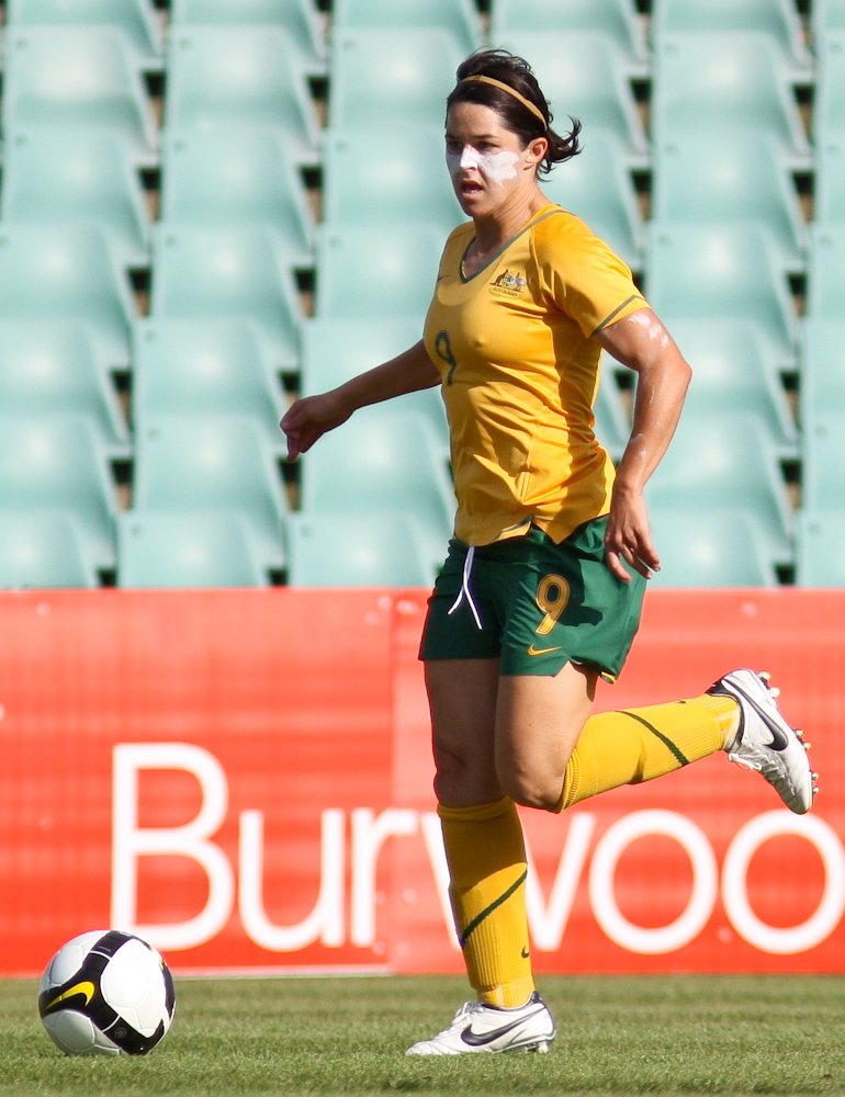 Sarah Walsh playing for the Australian Women's Football Team against Italy in a friendly international.